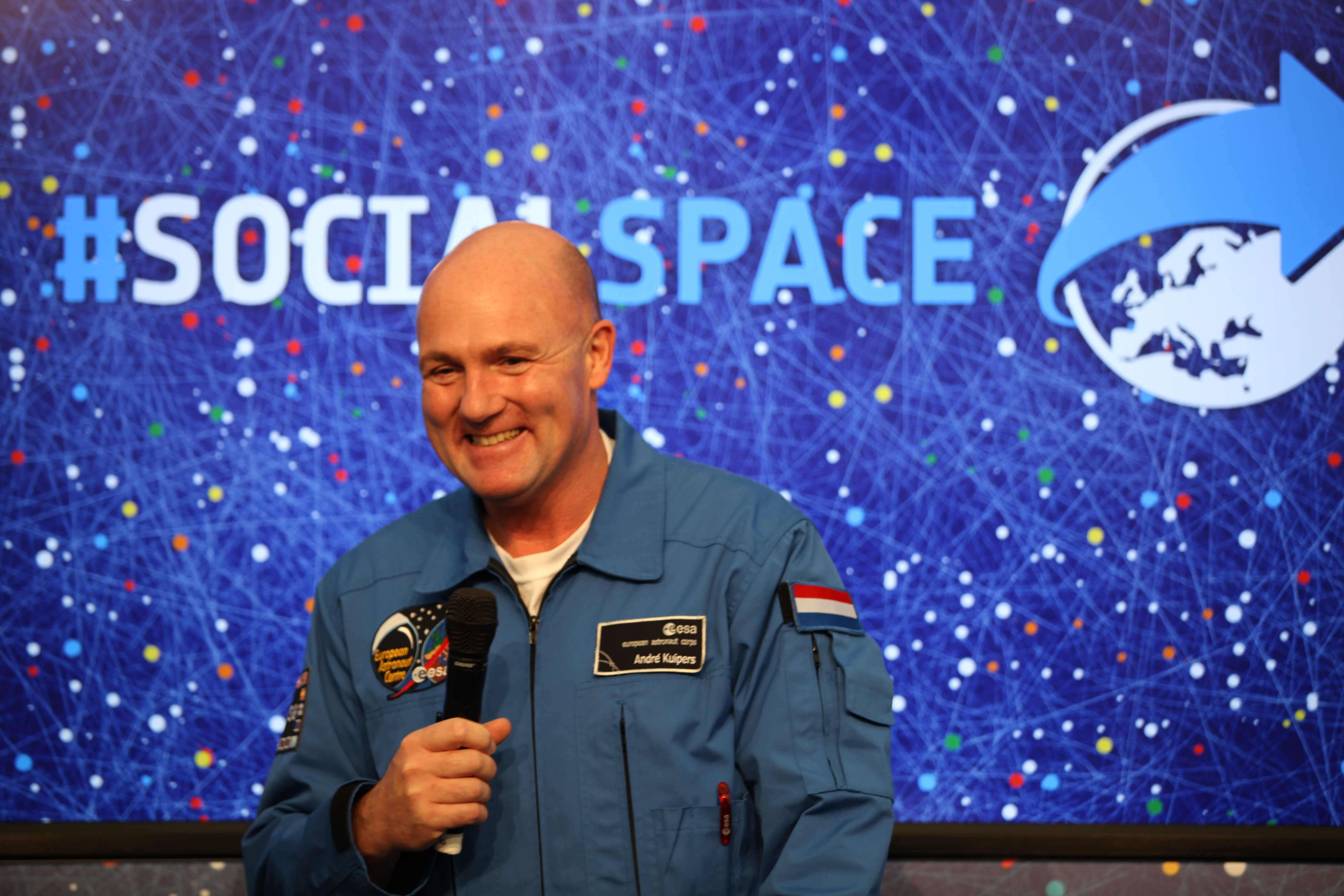 Photo from the joint ESA/DLR SocialSpace during German Aerospace Day 2013 in Cologne, Germany.